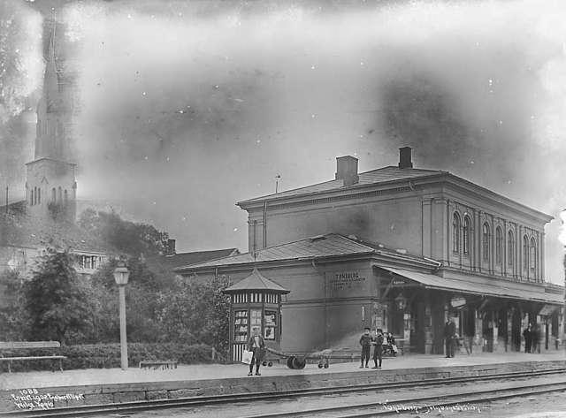 Tønsberg Station of the Vestfold Line, Norway